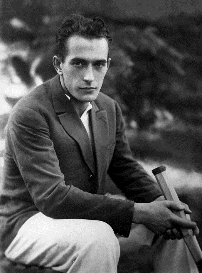 Henri Cochet During Paris Olympics, In 1924